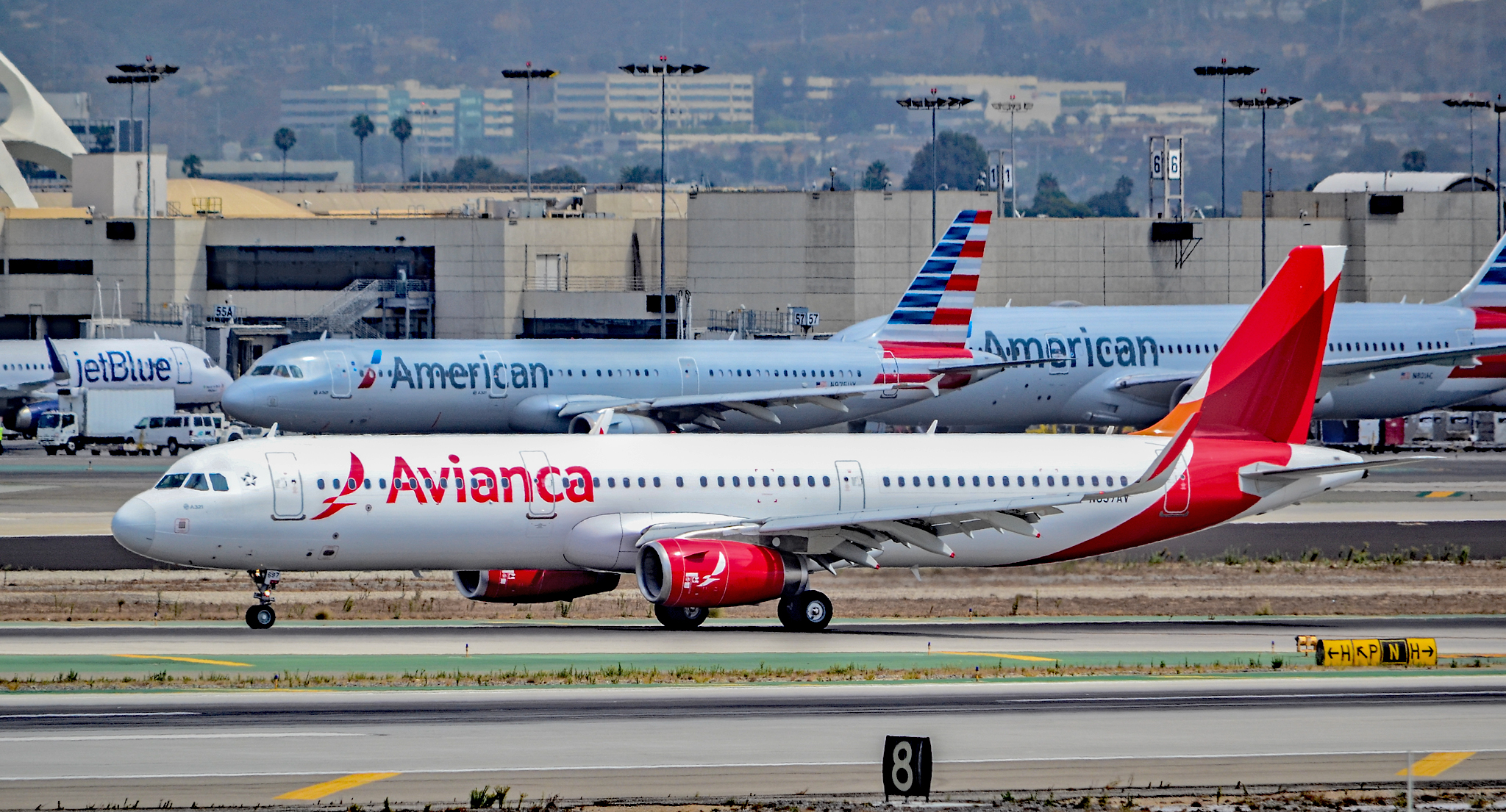 Los Angeles International Airport (IATA: LAX, ICAO: KLAX, FAA LID: LAX) Photo: TDelCoro September 3, 2017